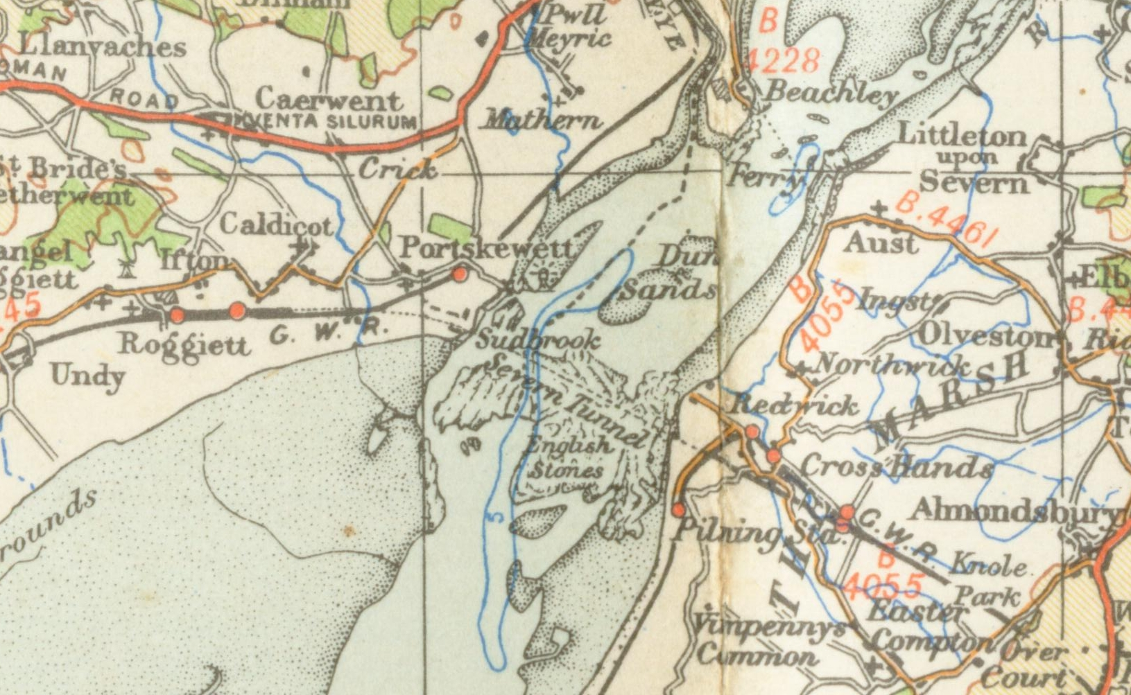 Scan of a map of the area around the Severn Tunnel showing its course